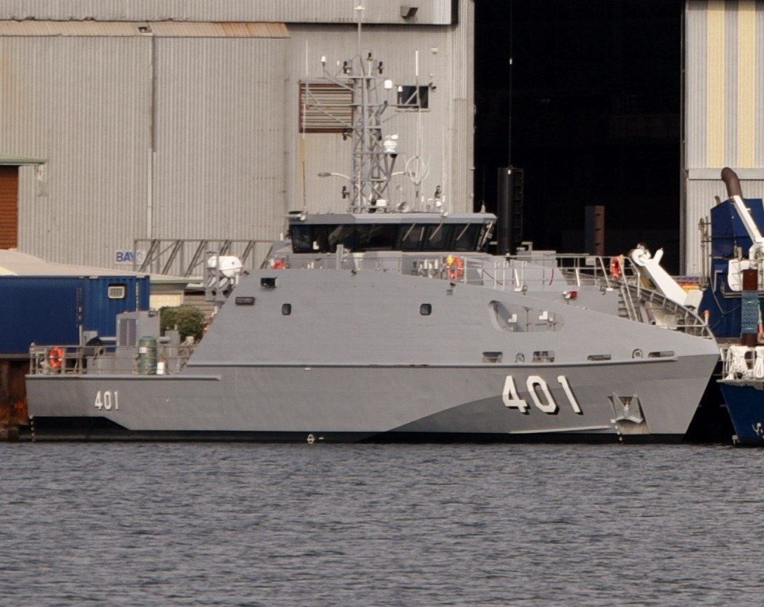 Ted Diro in the Austal shipyards in Henderson, Western Australia.